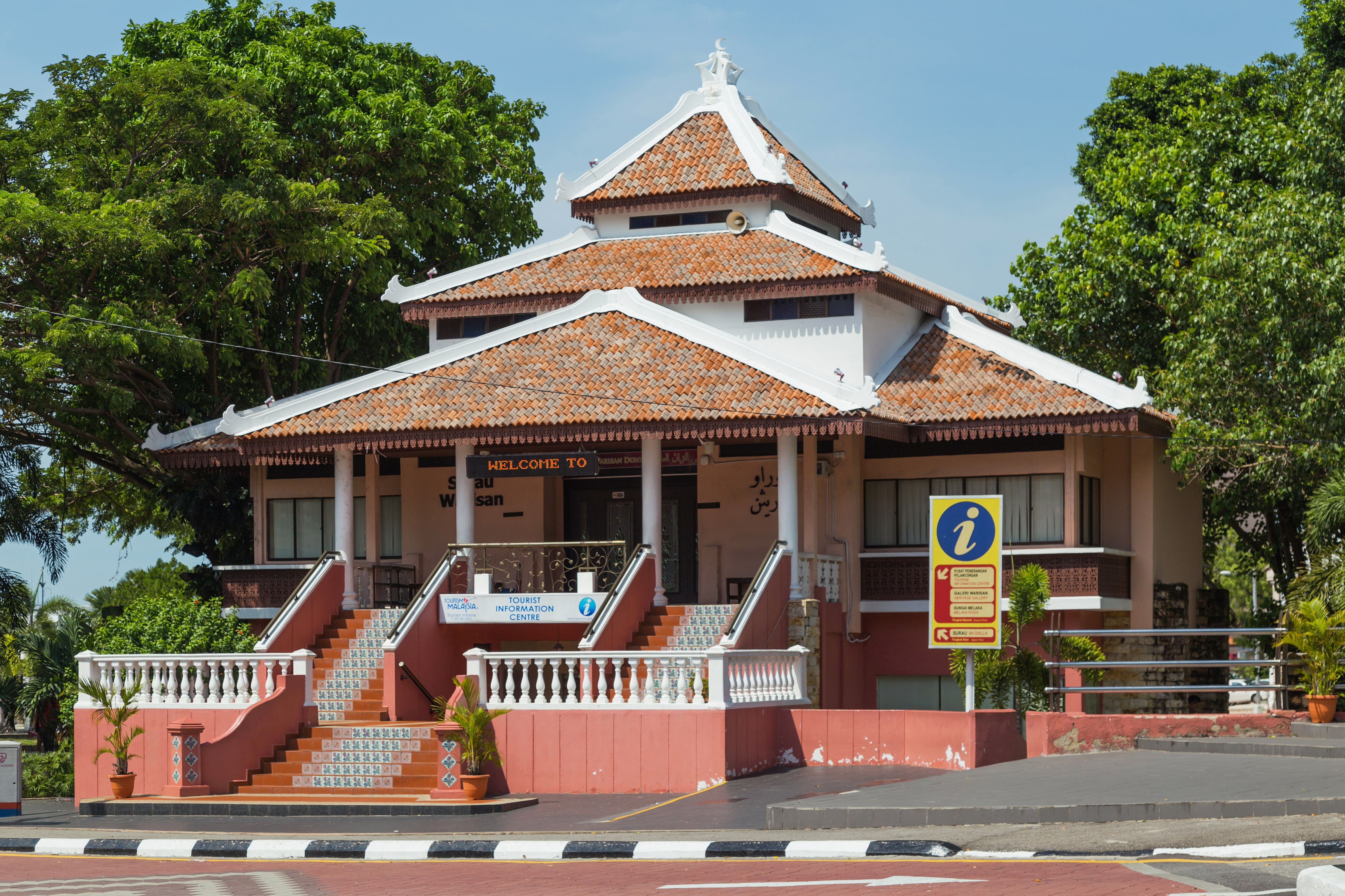 Tourist Information Centre. Malacca City, Malacca, Malaysia.